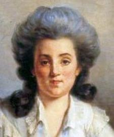 Princess Louise of Monaco, wife of Honoré IV of Monaco by an unknown artist